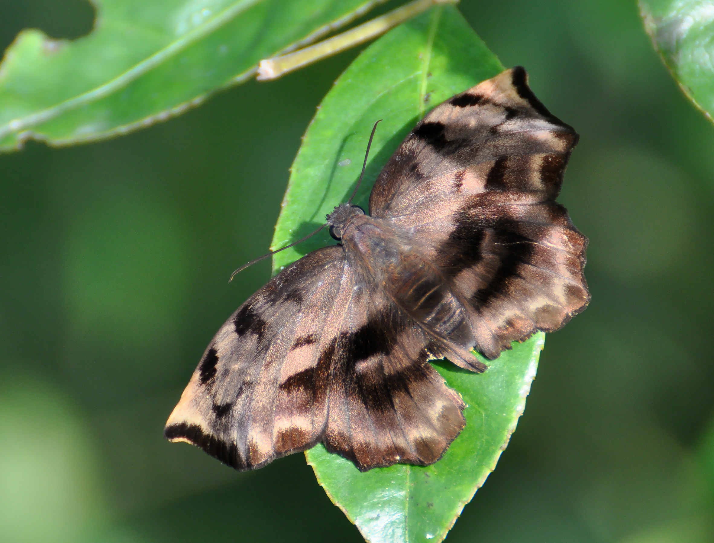 Achlyodes busirus photographed in Rio Grande do Sul, Brazil, in April 2010.